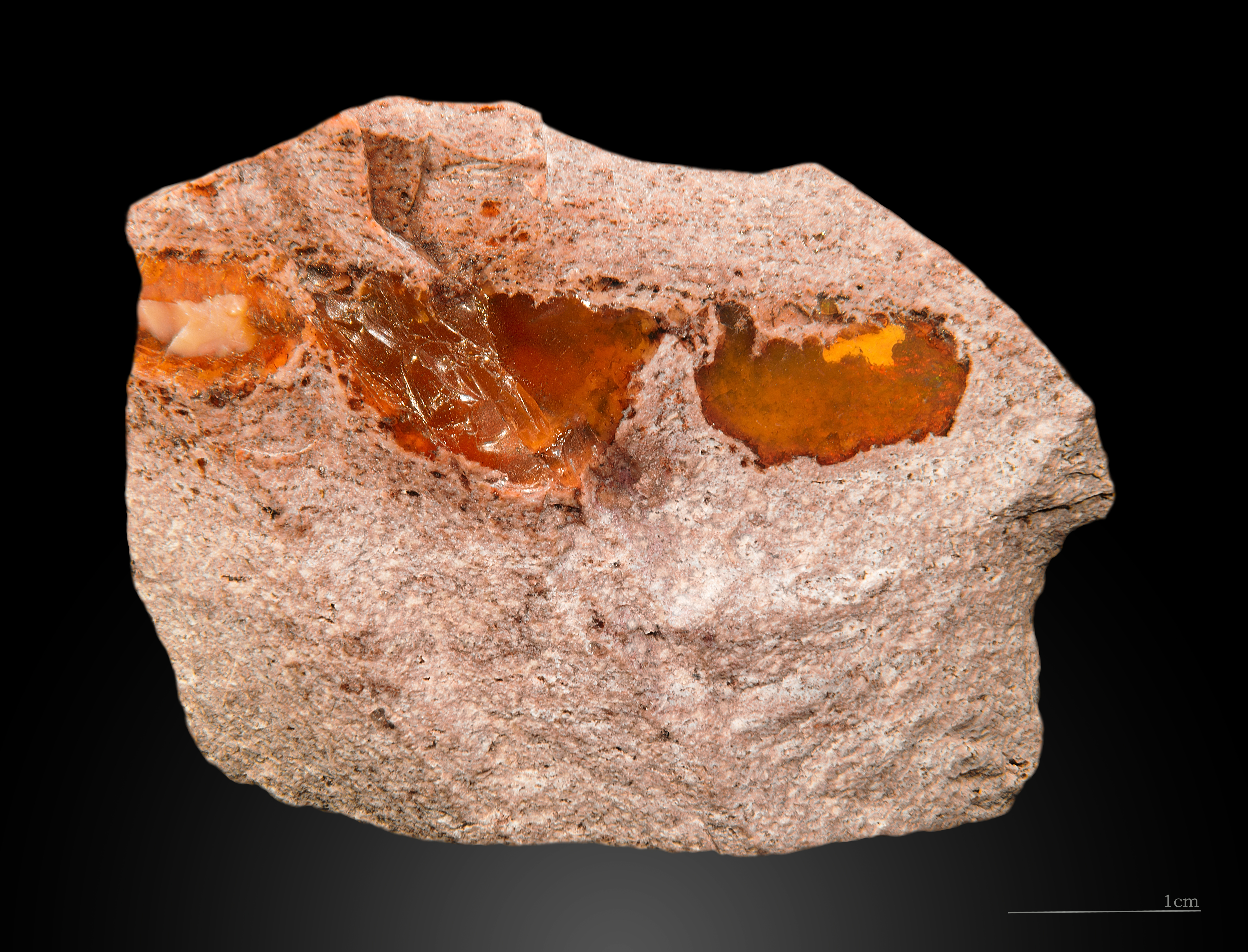 Fire Opal Locality: Jalisco, Mexico (5x3.5cm)